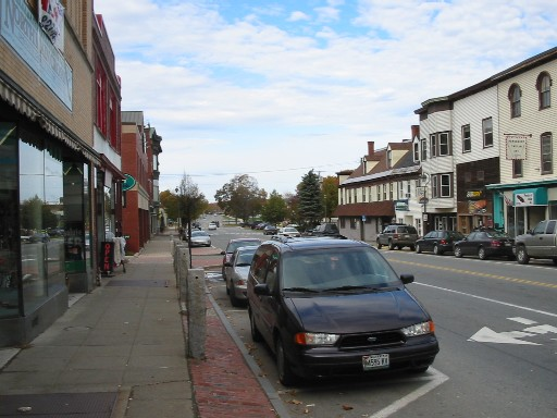 Main Street in Old Town, Maine, USA. Photo taken by jalnet2.